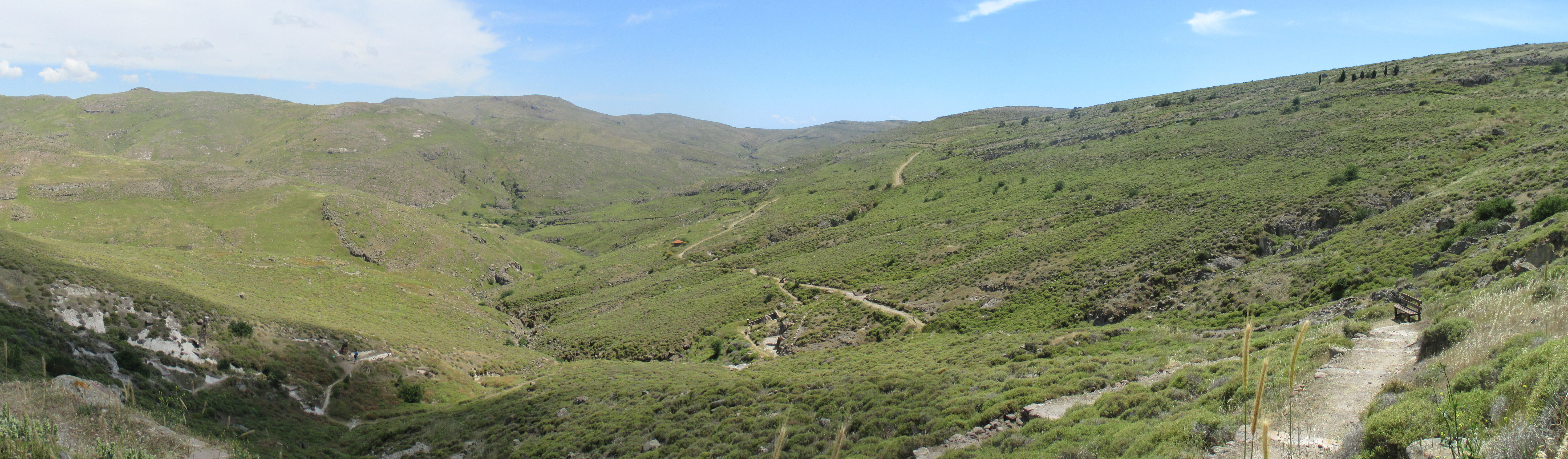 Petrified forest of Lesbos Geopark, Eresos-Antissa, Lesvos (Lesbos), Greece. Panorama.